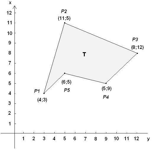 Figure of Gauss' polygon area formula